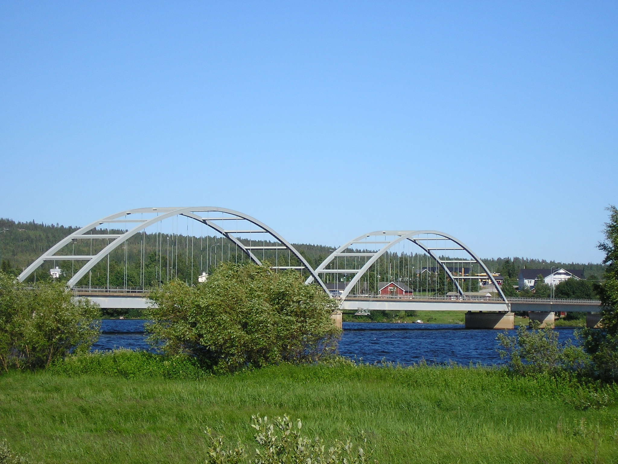 Aavasaksa bridge is a steel beam bridge over Torne river between the villages of Aavasaksa in Finland and Övertorneå (Matarengi) in Sweden. It was completed in 1965.